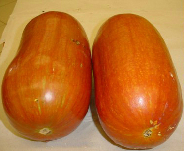 Sicana odorifera immature fruits for consumption This file has been extracted from another file: Cucurbitáceas subutilizadas 2.jpg